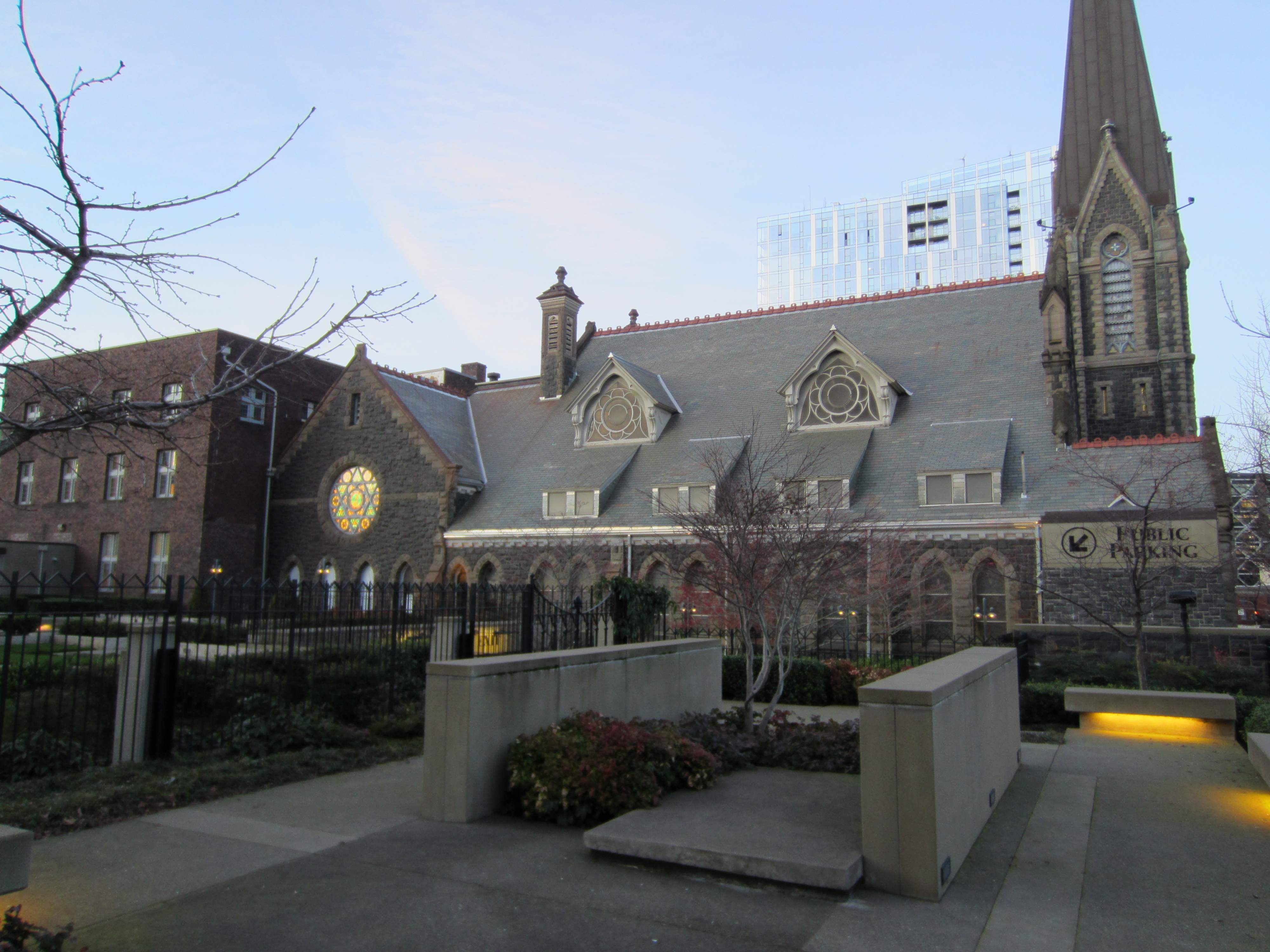 First Presbyterian Church in downtown Portland, Oregon in 2012